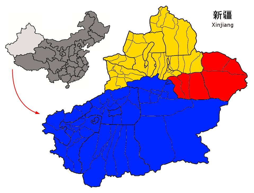 Xinjiang macroregions North (Kazakhs) East (Mongolians) South (Uyghurs and Tajiks)